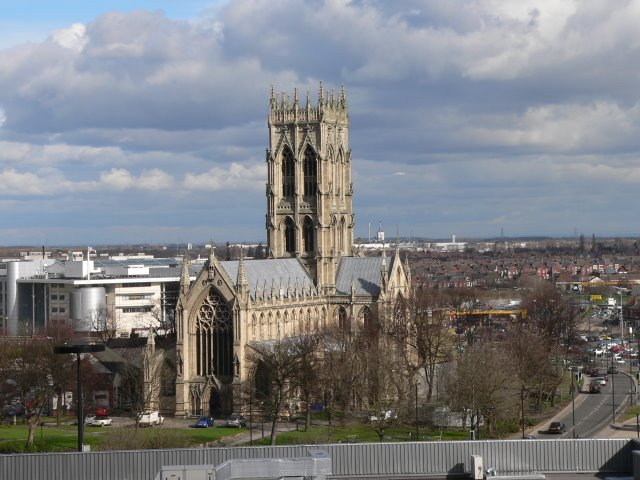 Doncaster Parish Church From the British Rail car-park.